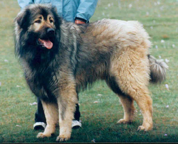 A big Shar Dog